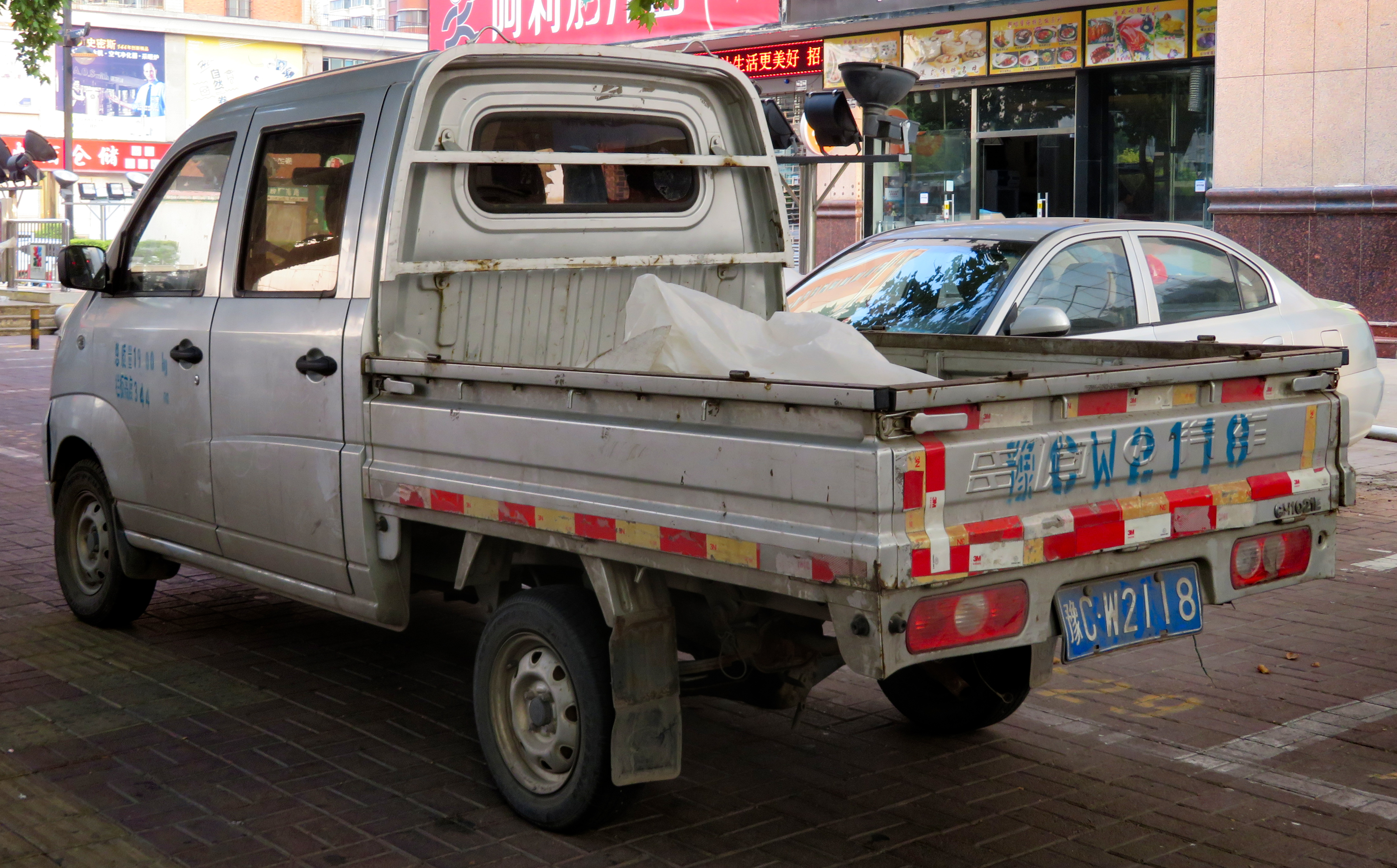 A 2008 Jiangxi-Changhe Freedom CH1021E double cab photographed in Xigong District, Luoyang, Henan province, China